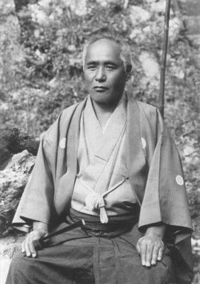 Tokumitsu Kanada photography, religious leader from Perfect Liberty Church